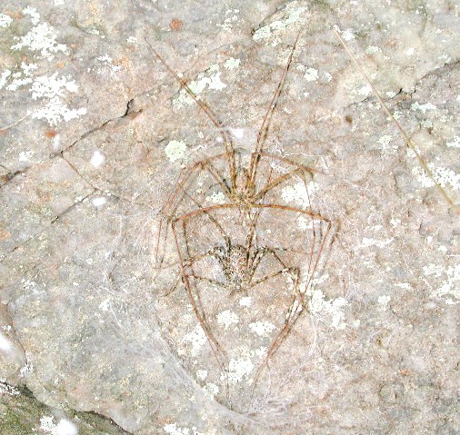 post-copulatory mate guarding in Hypochilus sp., Appalachia.